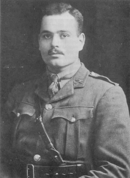 Portrait of the English psychoanalyst Wilfred Bion in uniform in 1916.